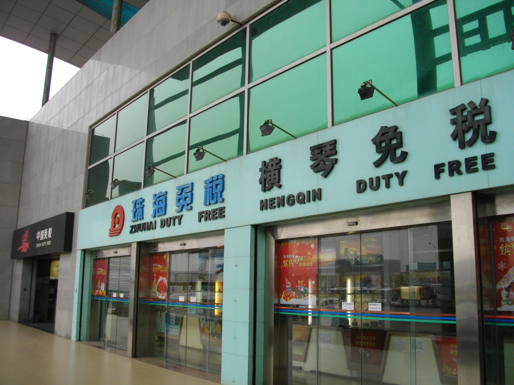 Hengqin Port duty-free shops